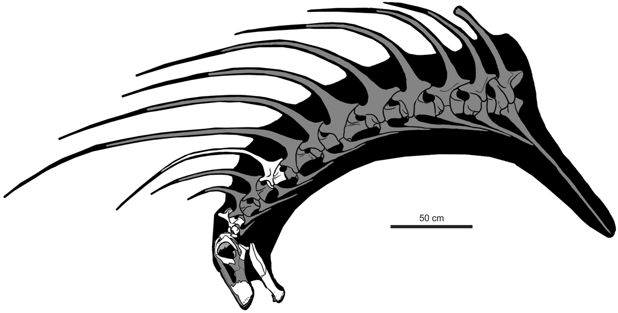 Skeletal reconstruction of Bajadasaurus pronuspinax gen. et sp. nov (MMCh-PV 75). The neck and skull reconstruction in left lateral view, showing preserved bones in white. The complete anterior cervical vertebra is located tentatively in the fifth position (see Description). The total count of cervical elements, as well as the relative extension of the neural spines, is based in the complete series of the related taxon Amargasaurus, the other dicraeosaurid with extremely elongated bifid neural spines along the neck.